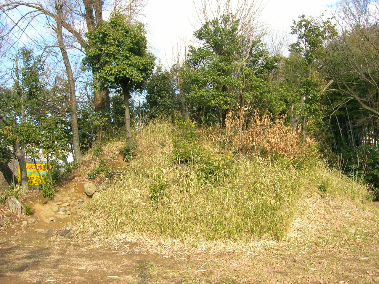 Shiratori Kofungun. (Shiratori Old tombs. No.1) Loc: Moriyama word, Nagoya city, Aichi Prefecture, Japan 白鳥古墳群 1号墳 撮影場所 愛知県名古屋市守山区